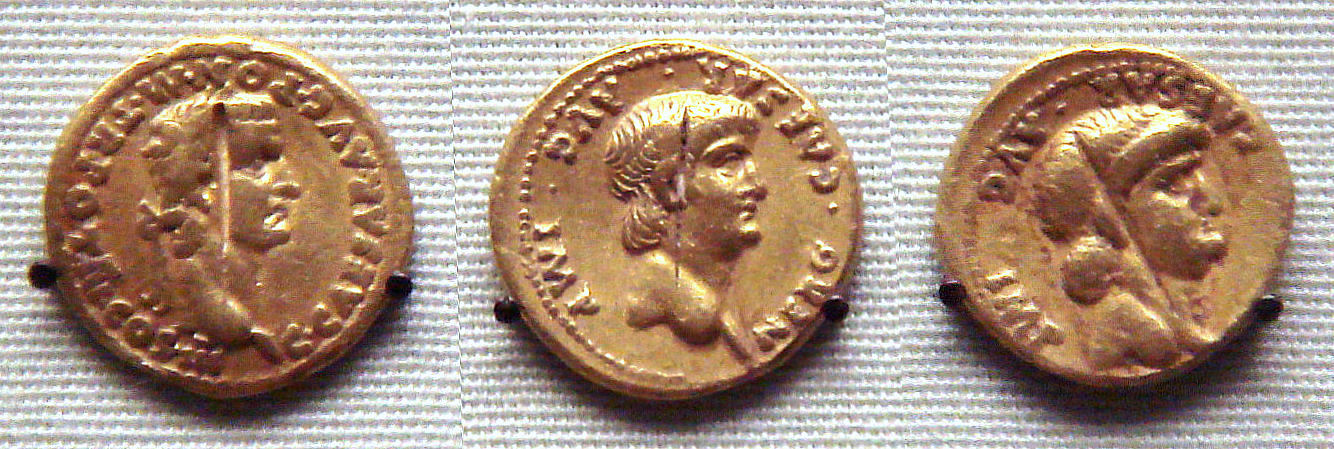 Roman_gold_coins_excavated_in_Pudukottai_India_one_coin_of_Caligula_31_41_and_two_coins_of_Nero_54_68.